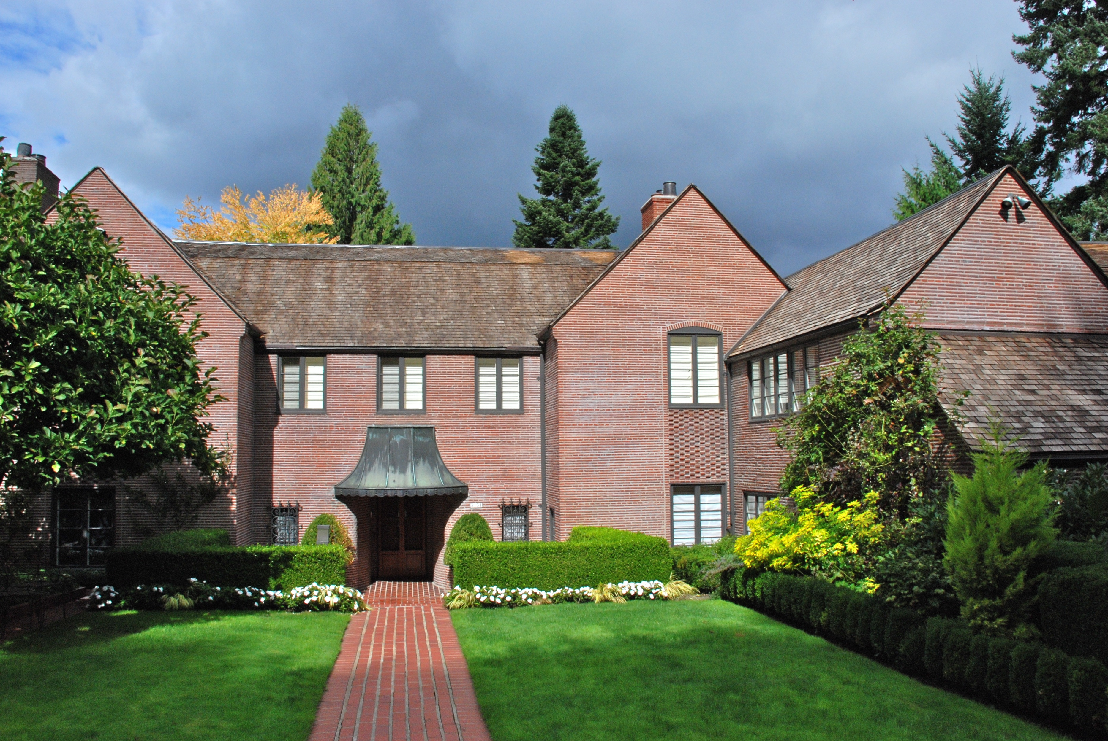 The Baruh–Zell House, in southwest Portland, Oregon, is listed on the U.S. National Register of Historic Places. This photo shows the front.